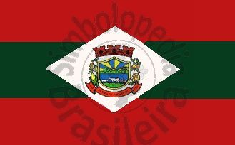 Flag of Planalto Alegre